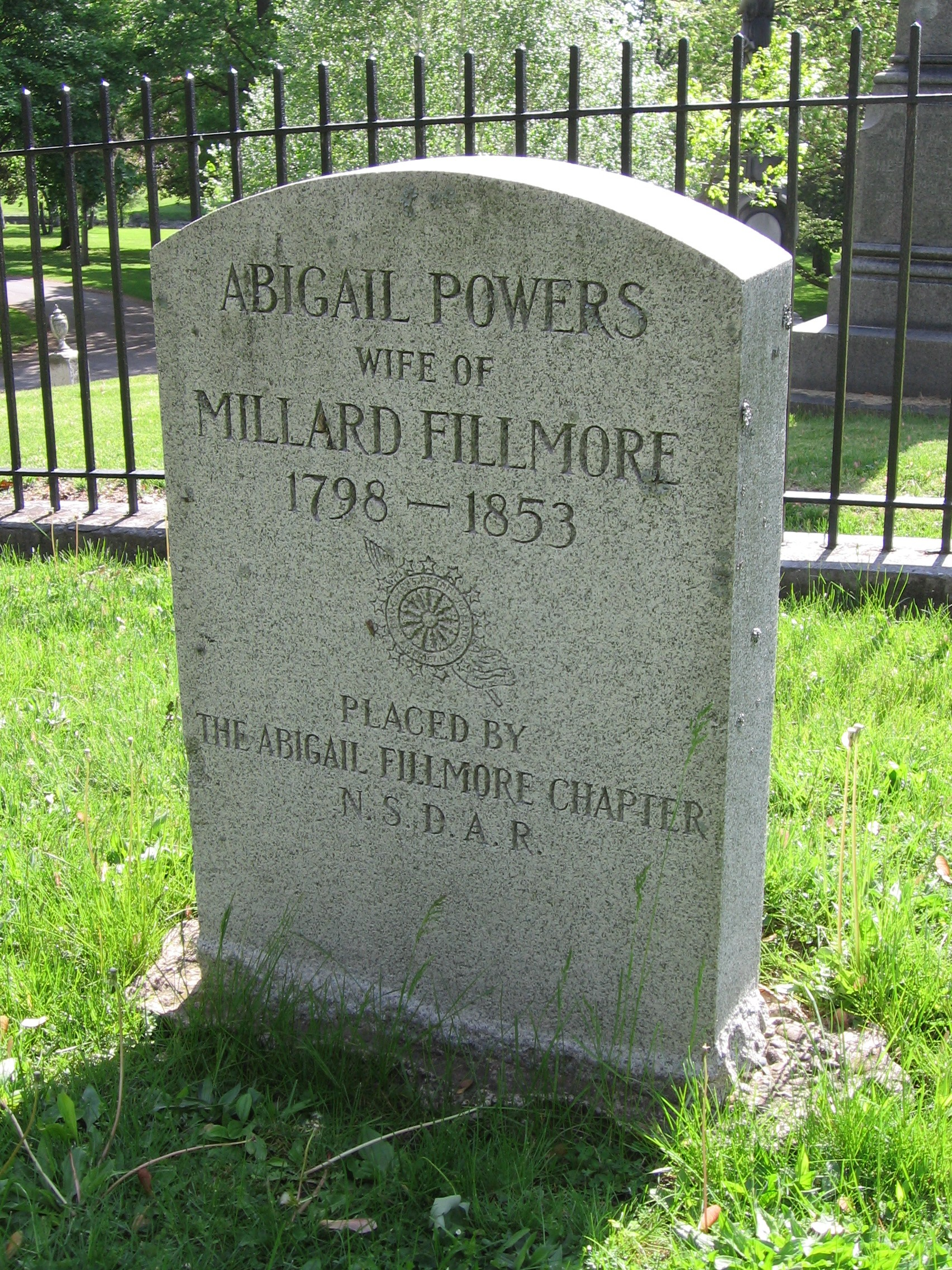 Gravesite of First Lady Abigail Powers, Buffalo, NY. Image created and copyright held by Yoho2001 Toronto, ON. If used, please attribute the image as such.